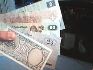 Egypt's pounds